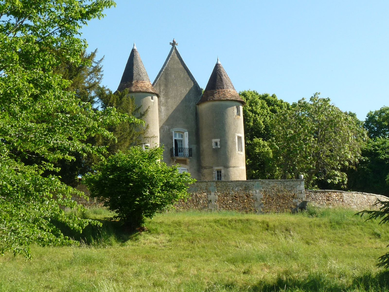 Castle of Les Fenêtres, Saint-Sornin, Charente, SW France